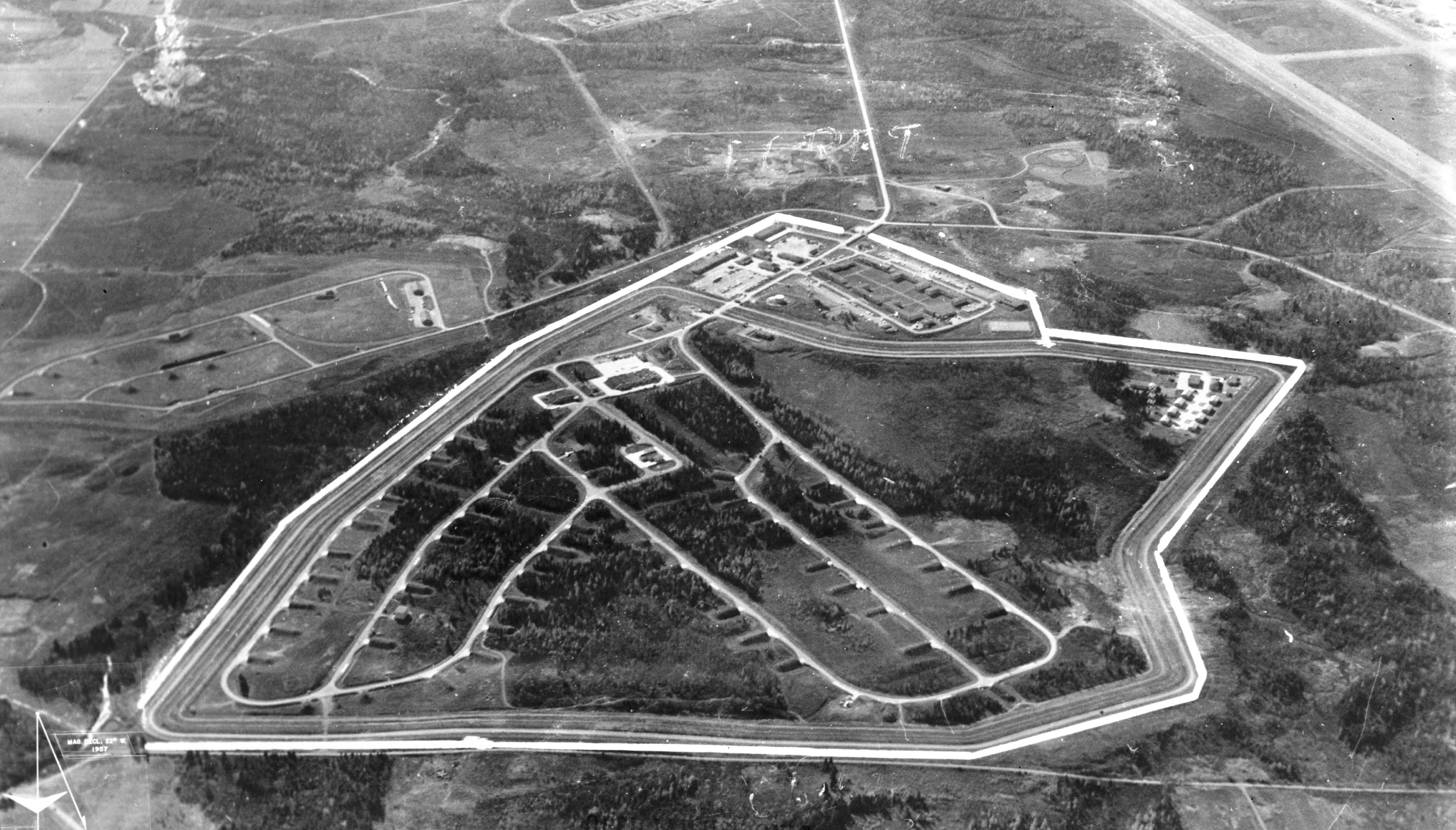 TITLE: Loring Air Force Base, Weapons Storage Area, Northeastern corner of base at northern end of Maine Road, Limestone vicinity, Aroostook County, ME. Copy of Undated Oblique Aerial Photograph Showing Weapons Storage Area, From Master Plan of Caribou Afs. Photograph, Probably Taken in the 1960's Located At Air Force Base Conversion Agency, Loring Air Force Base, Maine.